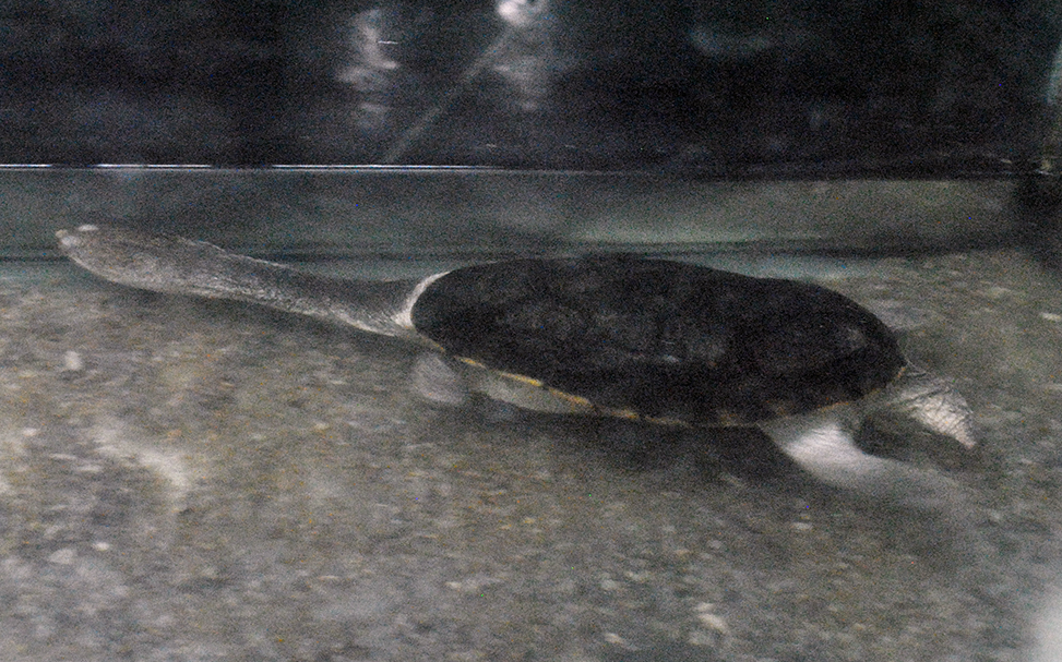 Chelodina longicollis in Pata Zoo